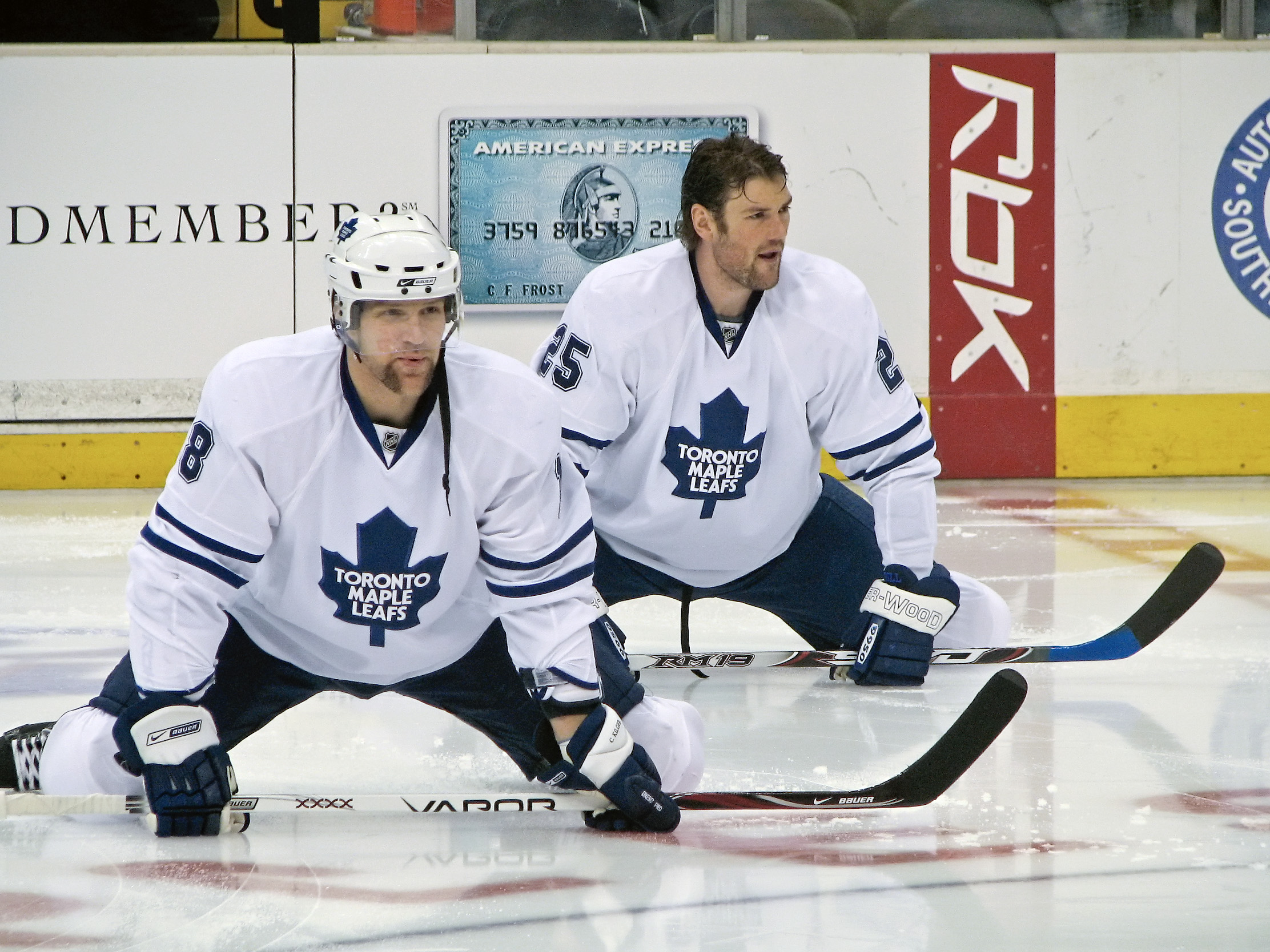 NHL Players Chad Kilger (left) and Hal Gill (right) warm up before a game on January 10, 2008.